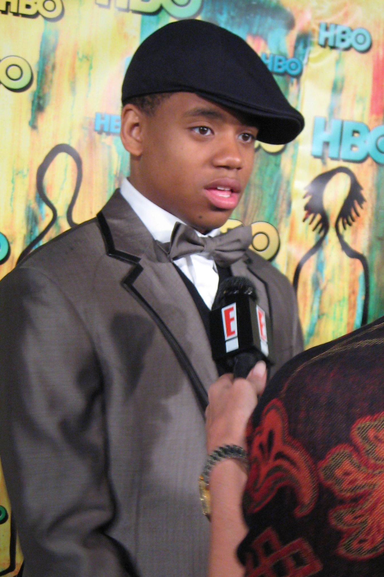 HBO Post-Emmys Party, Pacific Design Center, Sept. 21, 2008